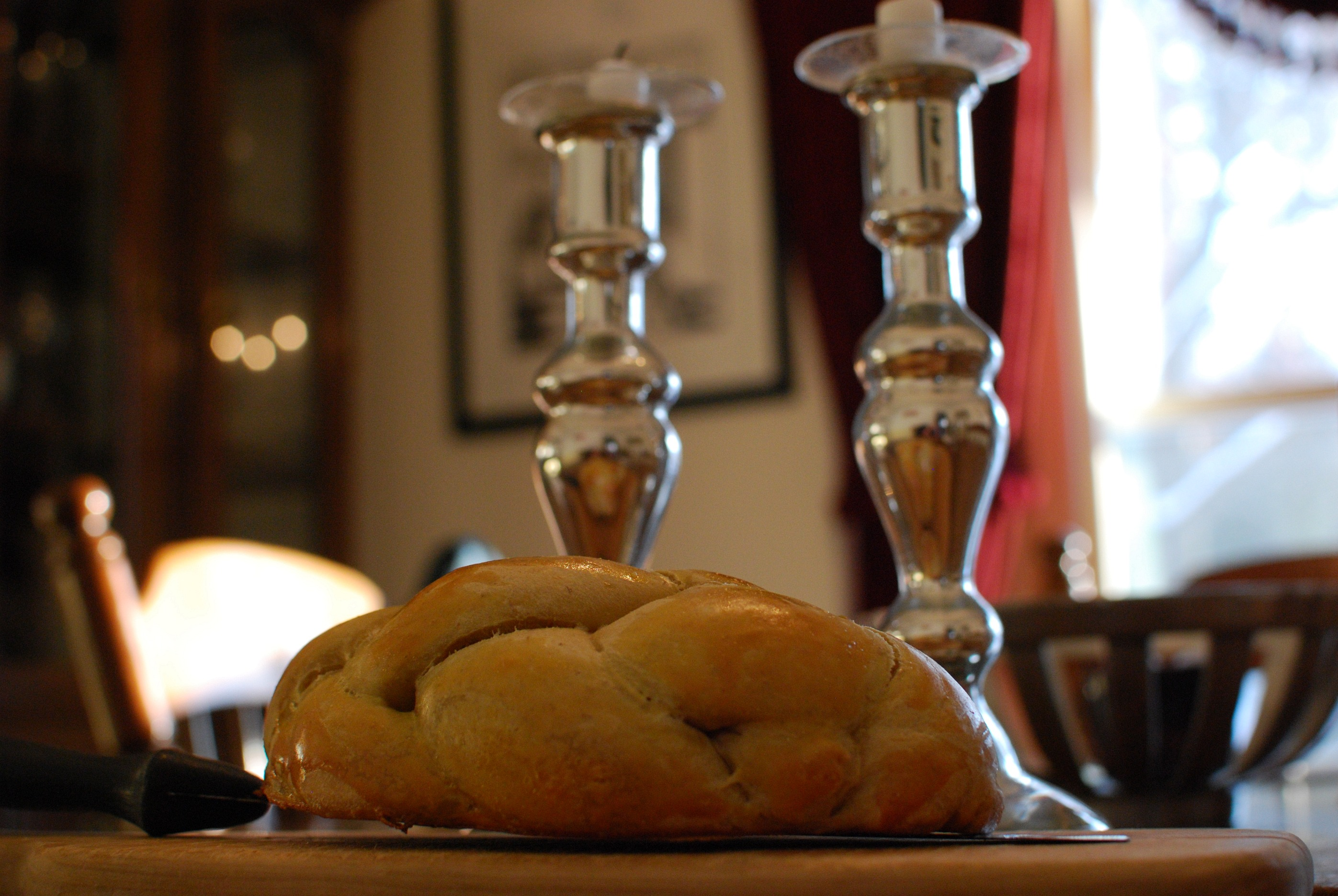 Most Fridays we try to have Shabbat dinner with the family. While I will occasionally serve alternative breads (such as garlic bread when we have pasta Shabbats or soda bread on the Shabbat before St. Patrick's Day), most weeks we have challah with our Shabbat dinner. I'm not much of a cook, so I use the Kineret frozen challah. I take it out to rise about six hours before I cook it, coat it with an egg (or a little Egg Beaters when I have that around), and bake it in the oven. It's warm and it's fresh, even if it's not completely homemade.